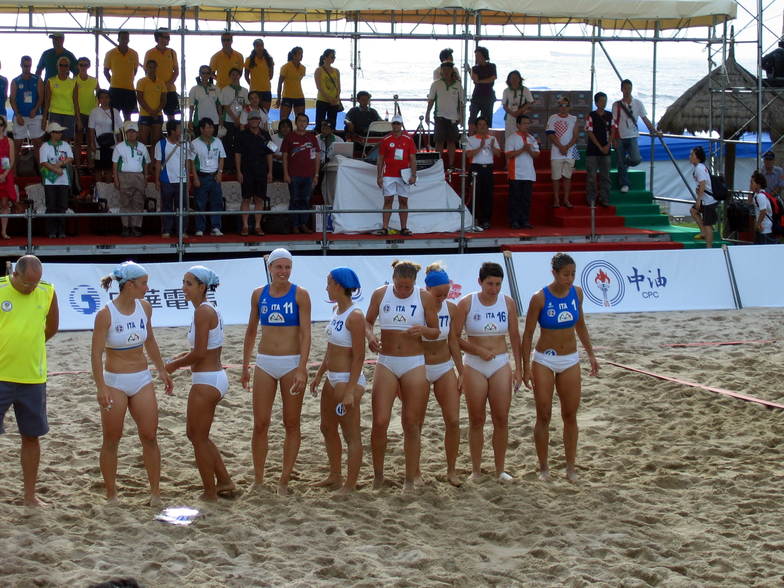 The Italy women's national beach handball team at the 2009 World Games